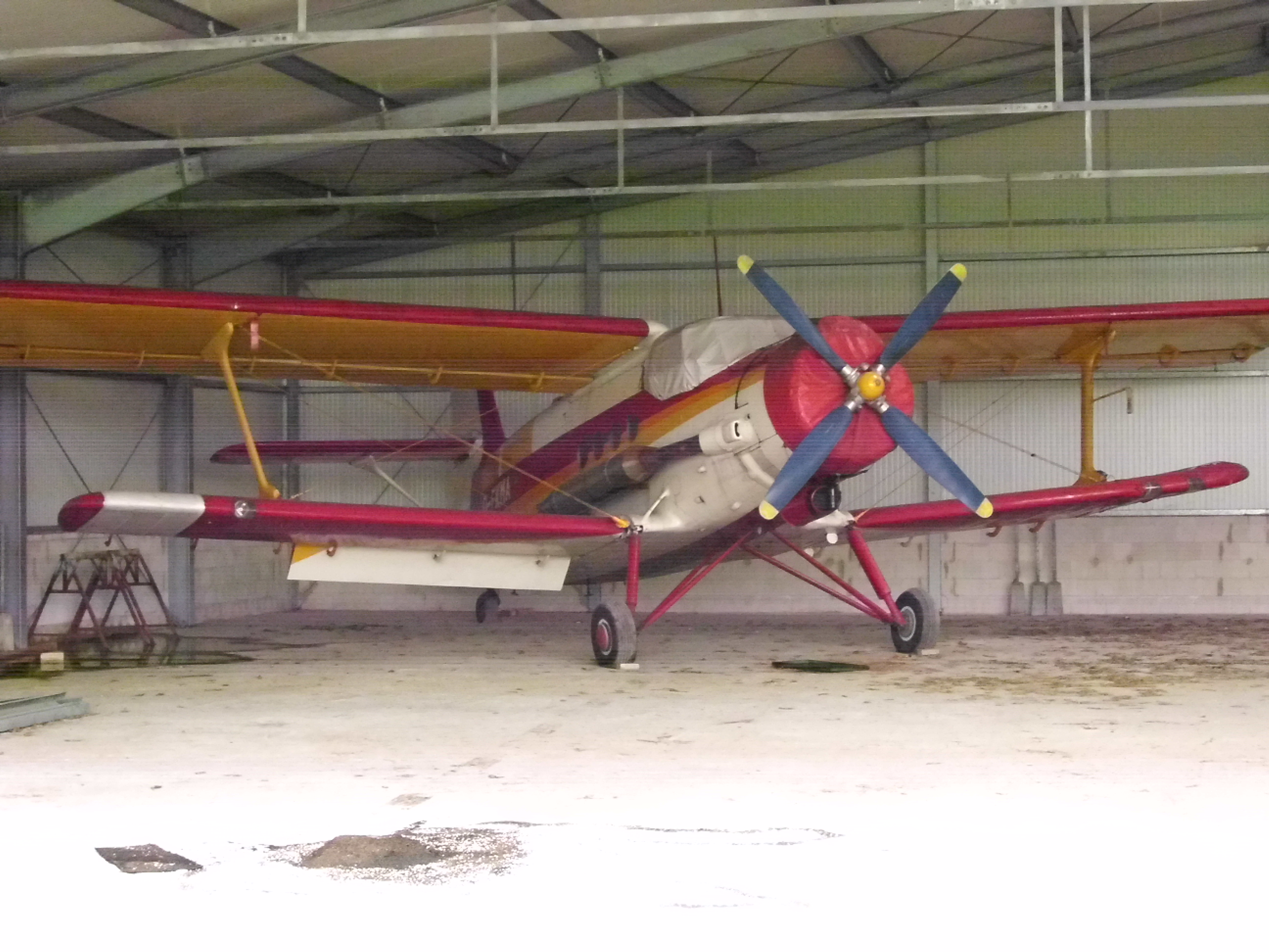 Biplane from the airfield Klausheide (EDWN, FNL GmbH)